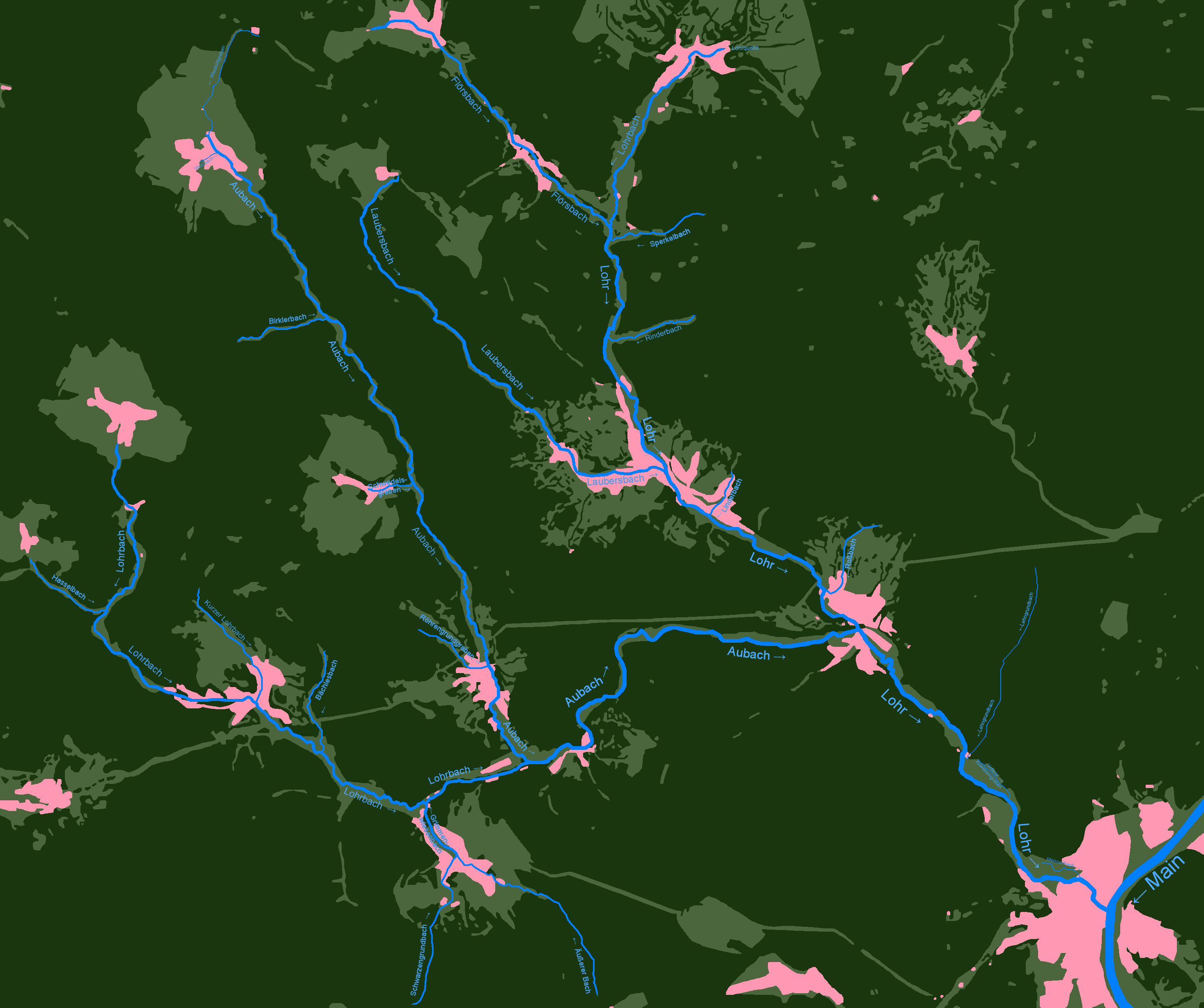 Streams in the drainage system of the Lohr: the file shows stream in the drainage system of Lohr which are listed in the "List of streams in the drainage system of Lohr" in the German Wikipedia. For questions and suggestions please contact the author. Grassland, Meadow Settlement area Forest Body of water